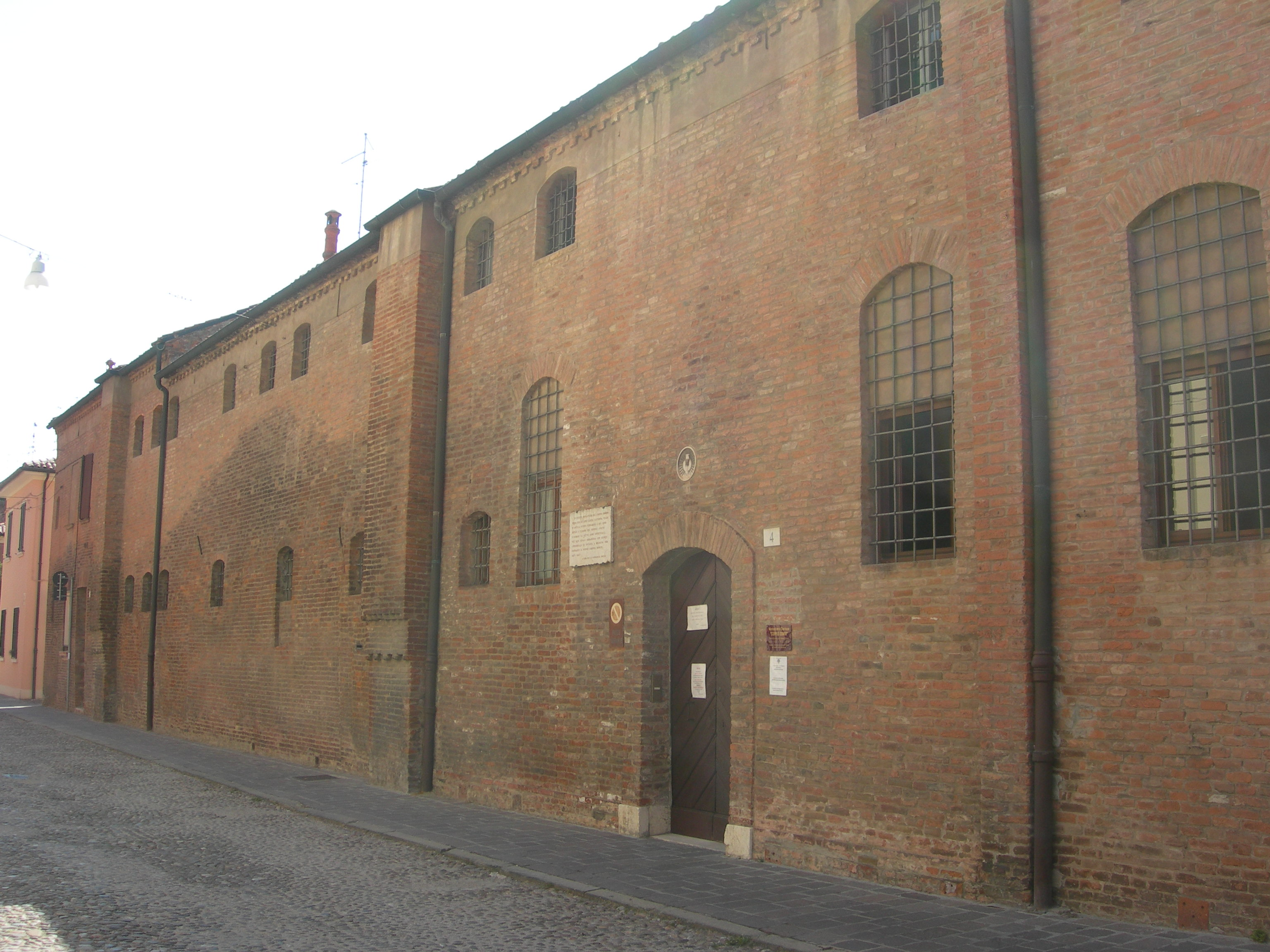 Monastero Corpus Domini of Ferrara